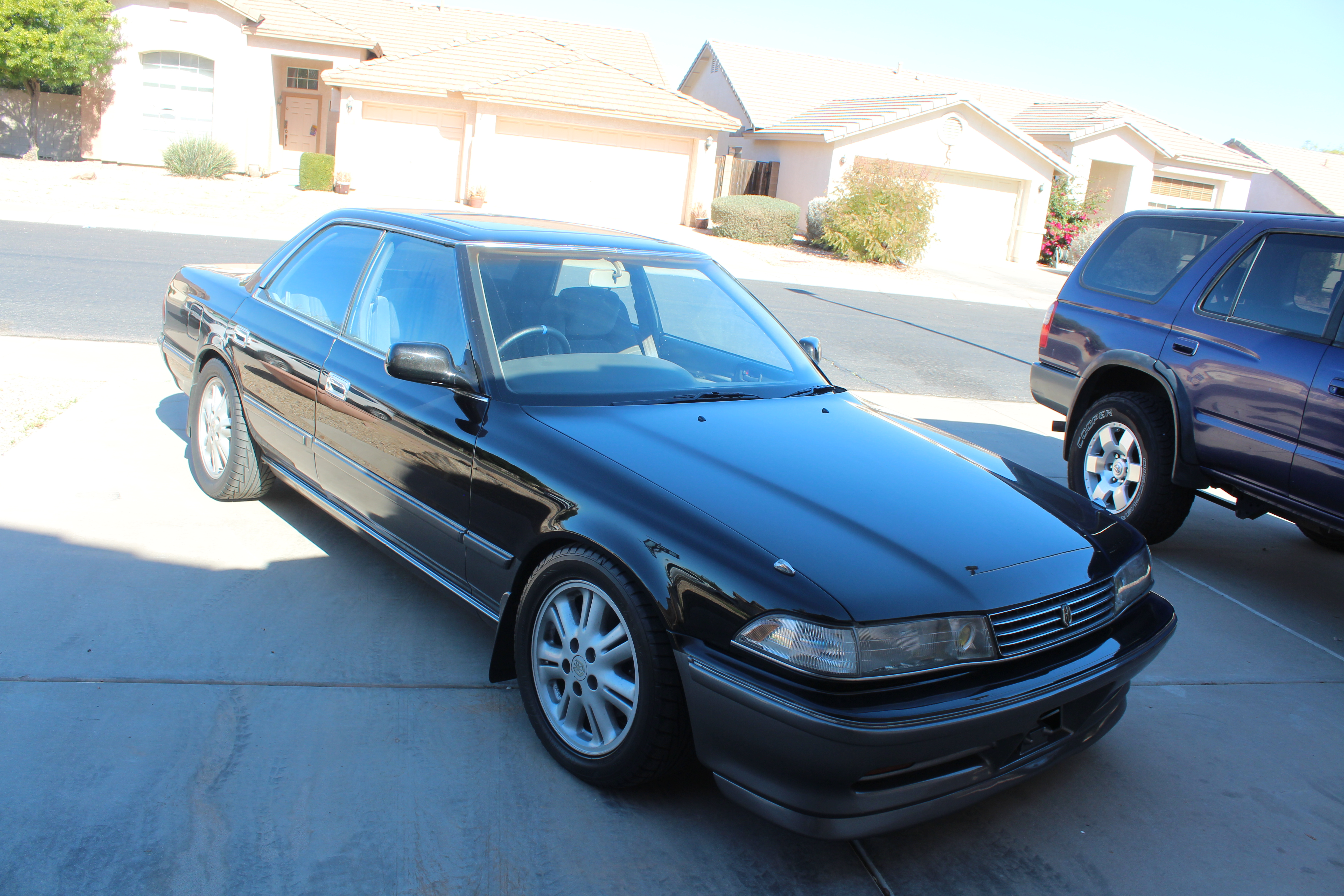 1991 Toyota Mark II 2.5GT taken by me.